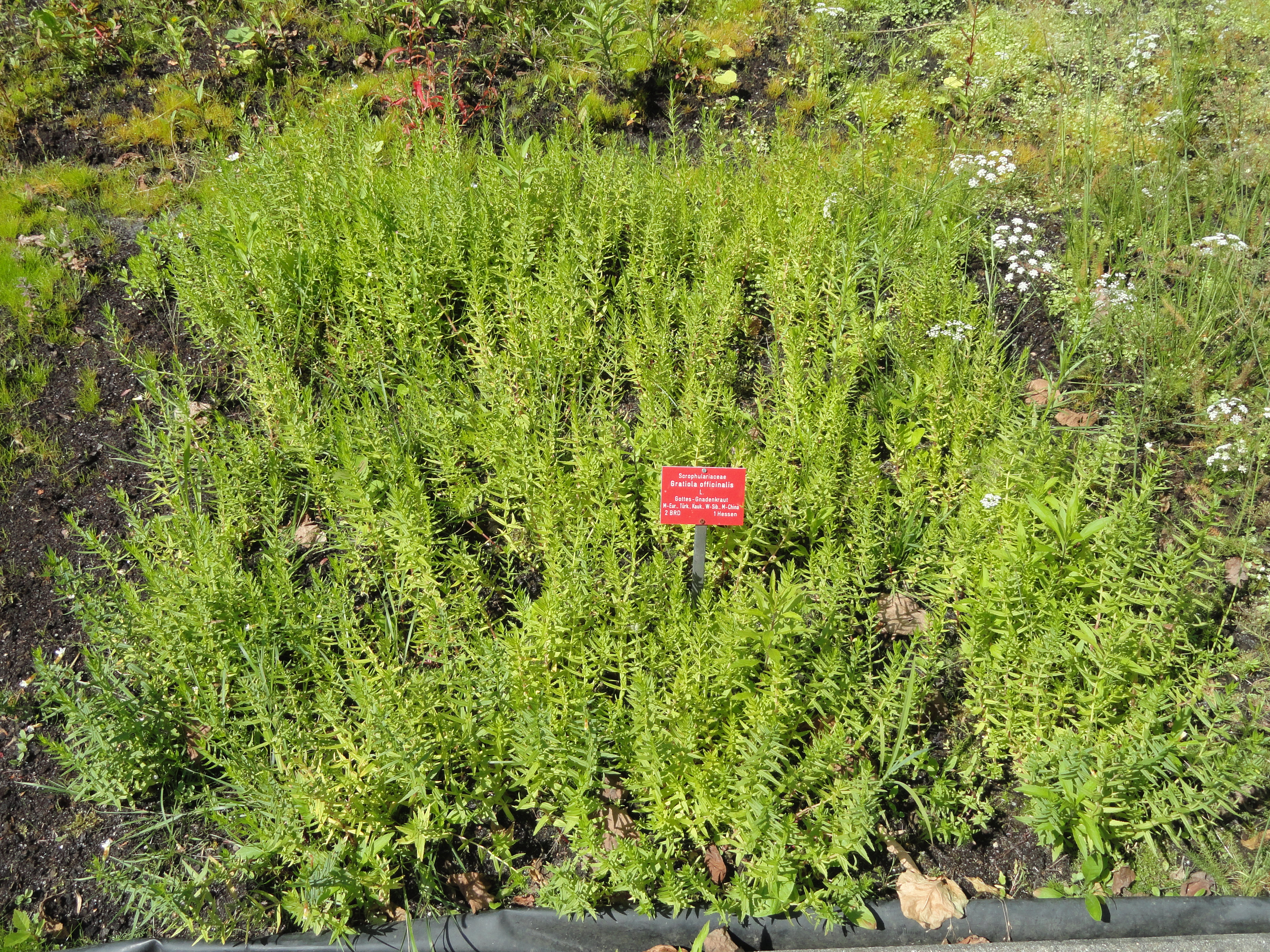 Botanical specimen in the Botanischer Garten, Frankfurt am Main, located at Siesmayerstraße 72, Frankfurt am Main, Germany.